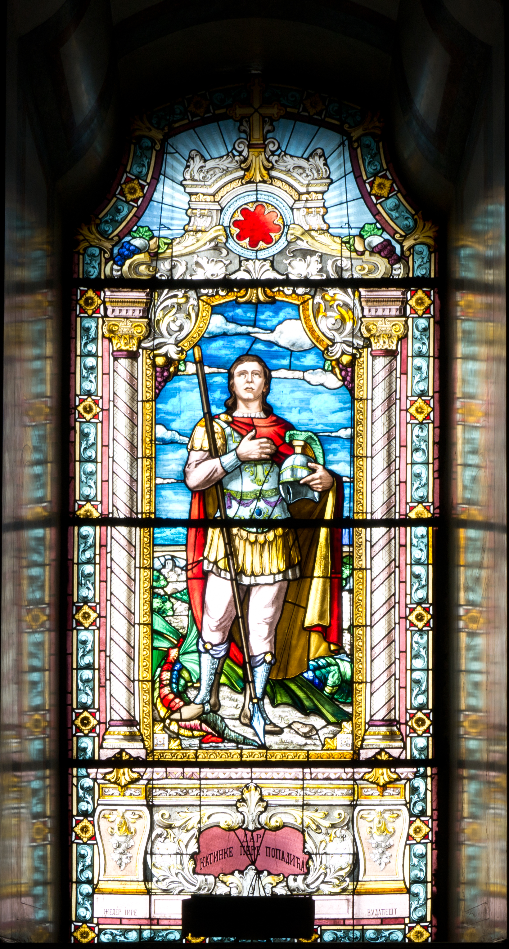 Window of the Saborna Crkva in Novi Sad.